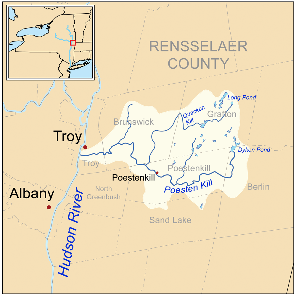 Map of the Poesten Kill drainage basin in Rensselaer County, New York United States